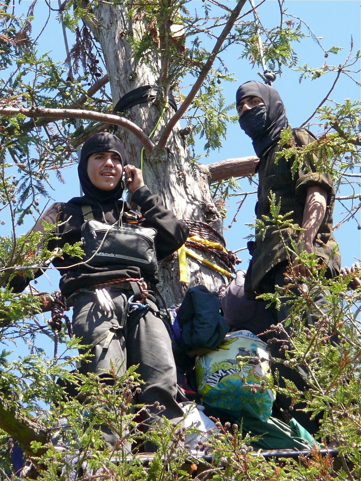 Altercation between Berkeley tree-sitters and tree trimmers on August 21, 2008